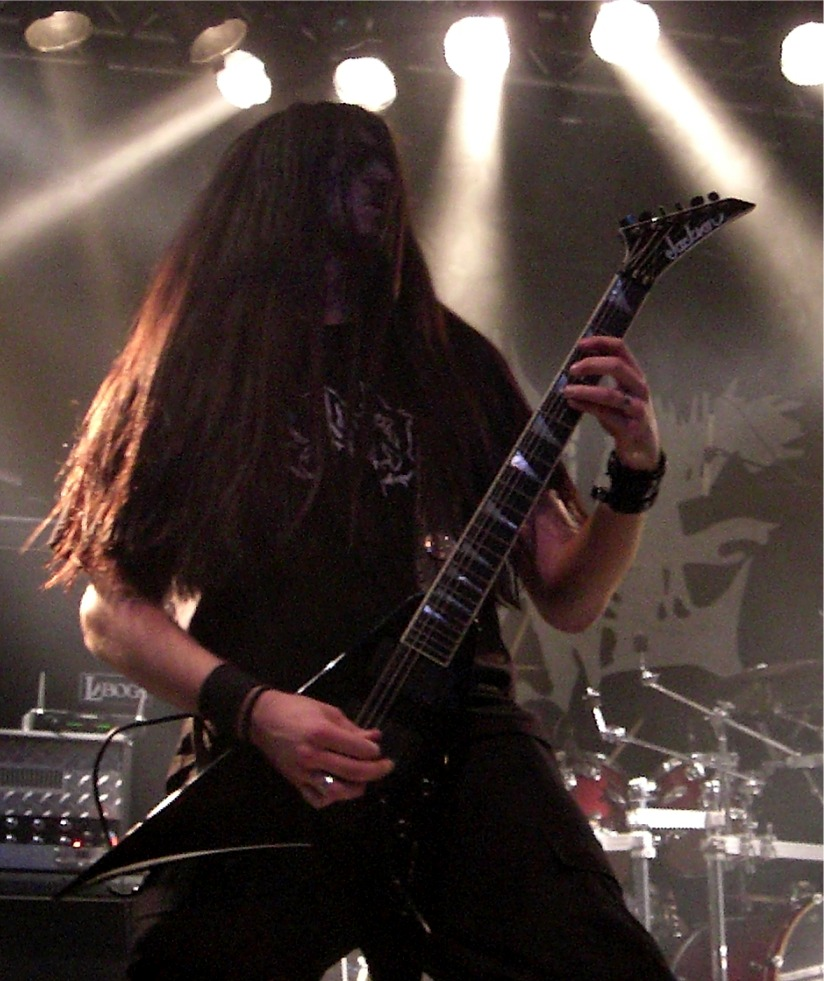 Magnus Martinsson performing live with Grave, Klubben Stockholm, 2008